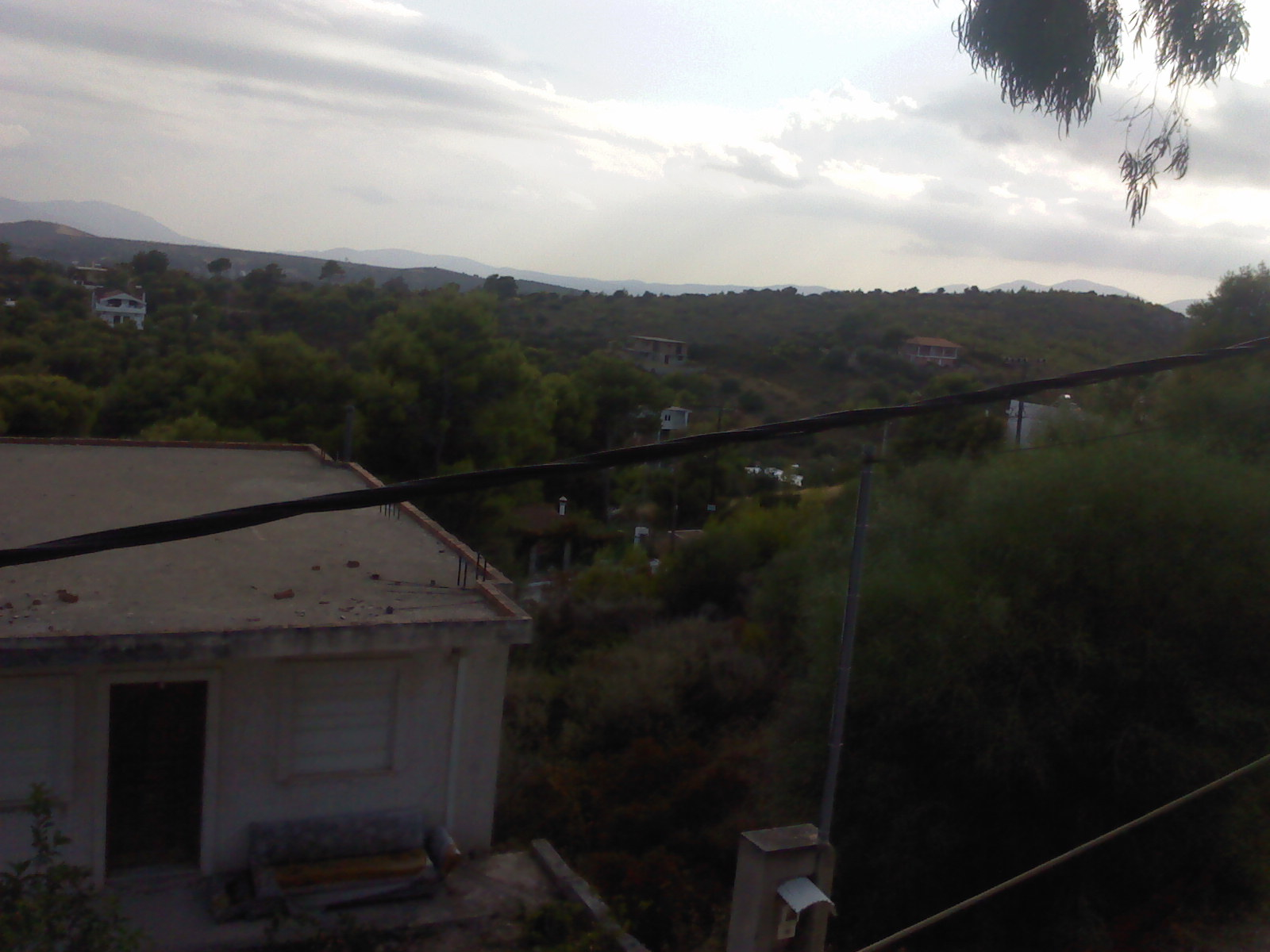 Town Agia Kiriaki